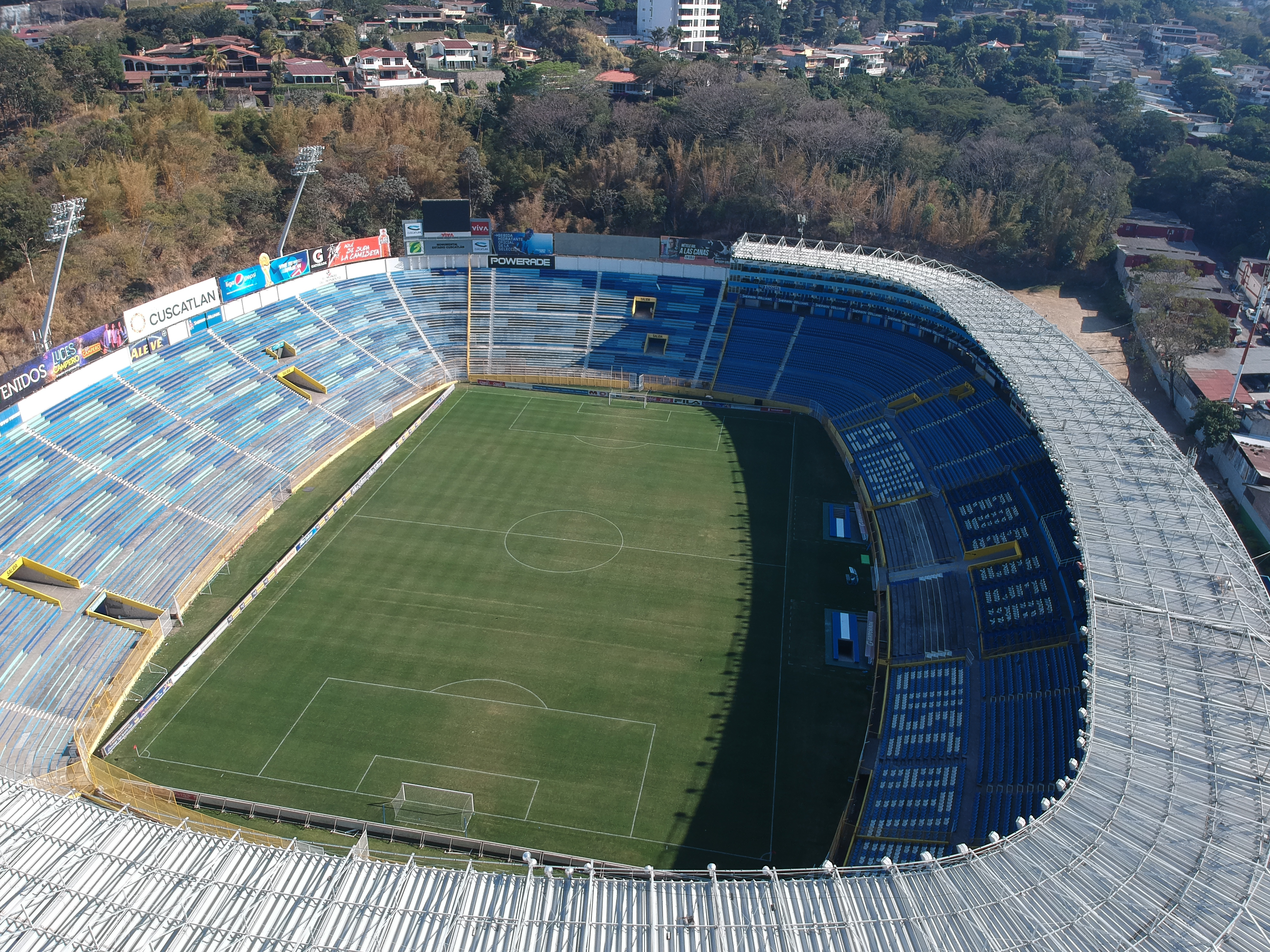 Cuscatlan Stadium